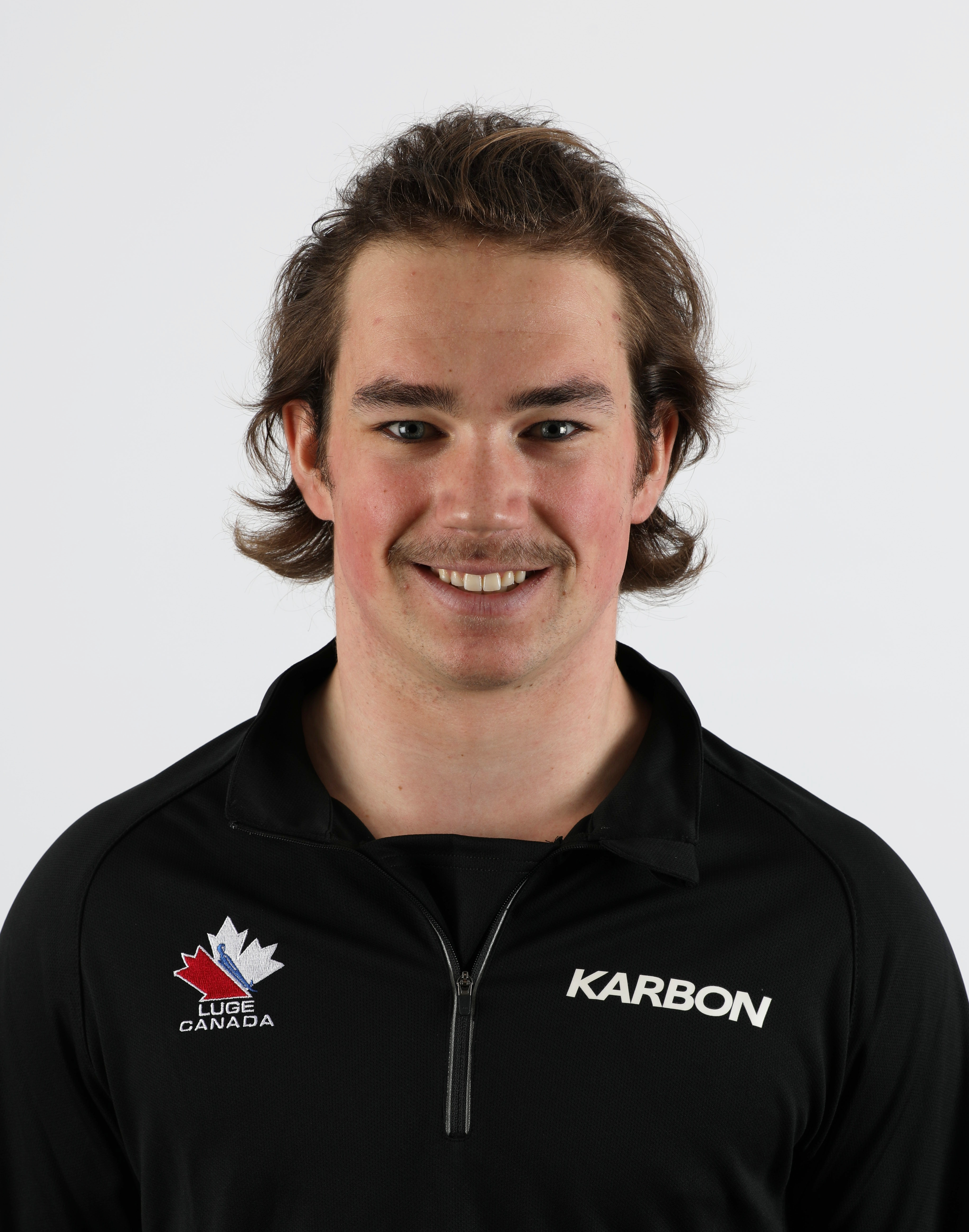 Athletes' photo project at the 2018/19 Innsbruck-Igls Luge World Cup: Reid Watts (Canada)